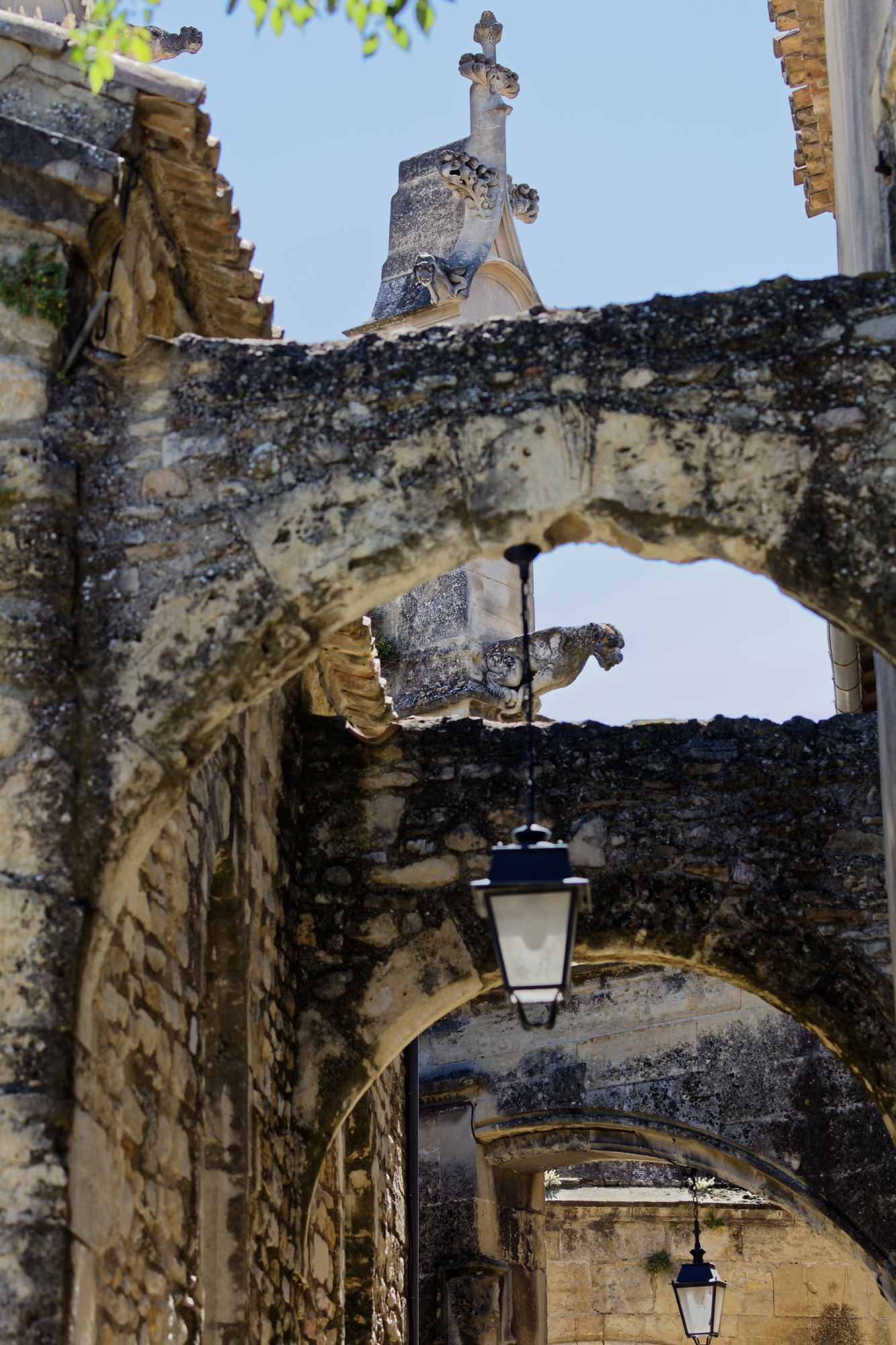 Église Saint-Michel : ces 3 voûtes sur la droite du bâtiment consolident les contrefort de la chapelle.Au-dessus de la première arche, un passage couvert , détruit à la révolution, permettait l'accès direct du château à la tribune d'honneur de la chapelle. .